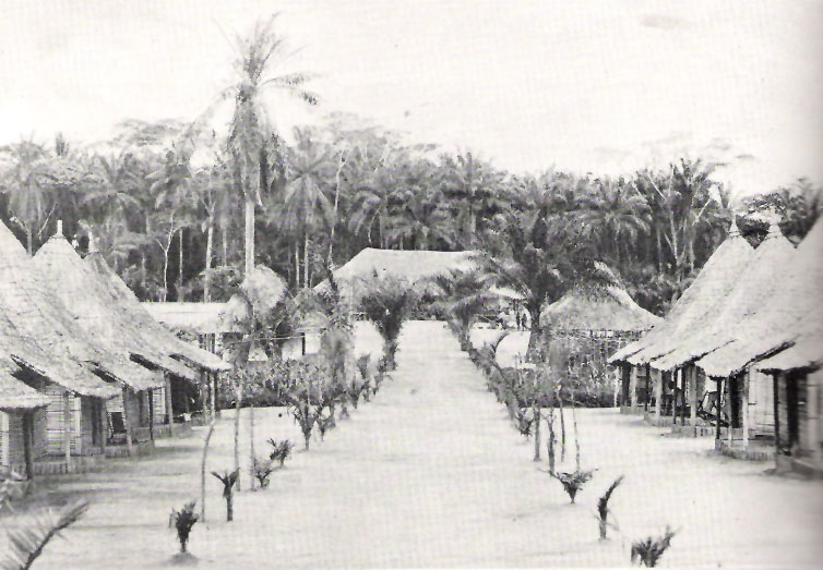 Isiro, a bathing resort near the borders of the Haut Ituri in the Belgian Congo.